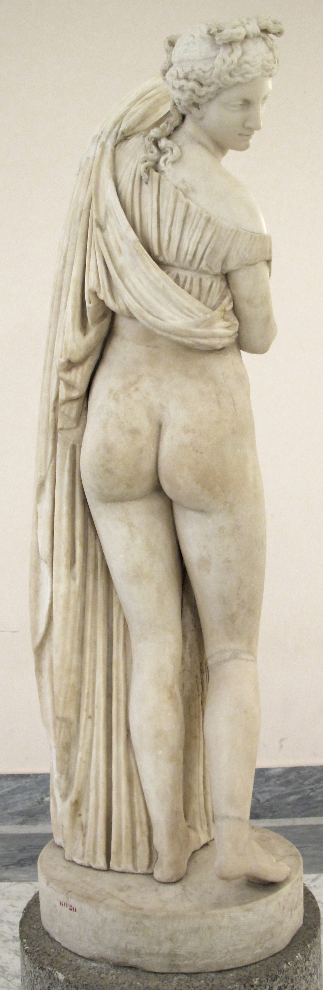 Ancient Roman statues in the Museo Archeologico (Naples)